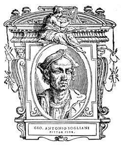 Illustratio from "Le Vite" by Giorgio Vasari, edition of 1568. For the artist portrayed see filename